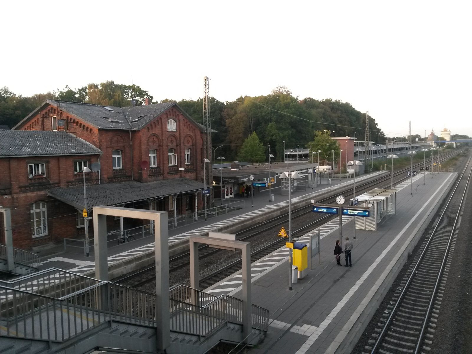 Railwaystation Tostedt